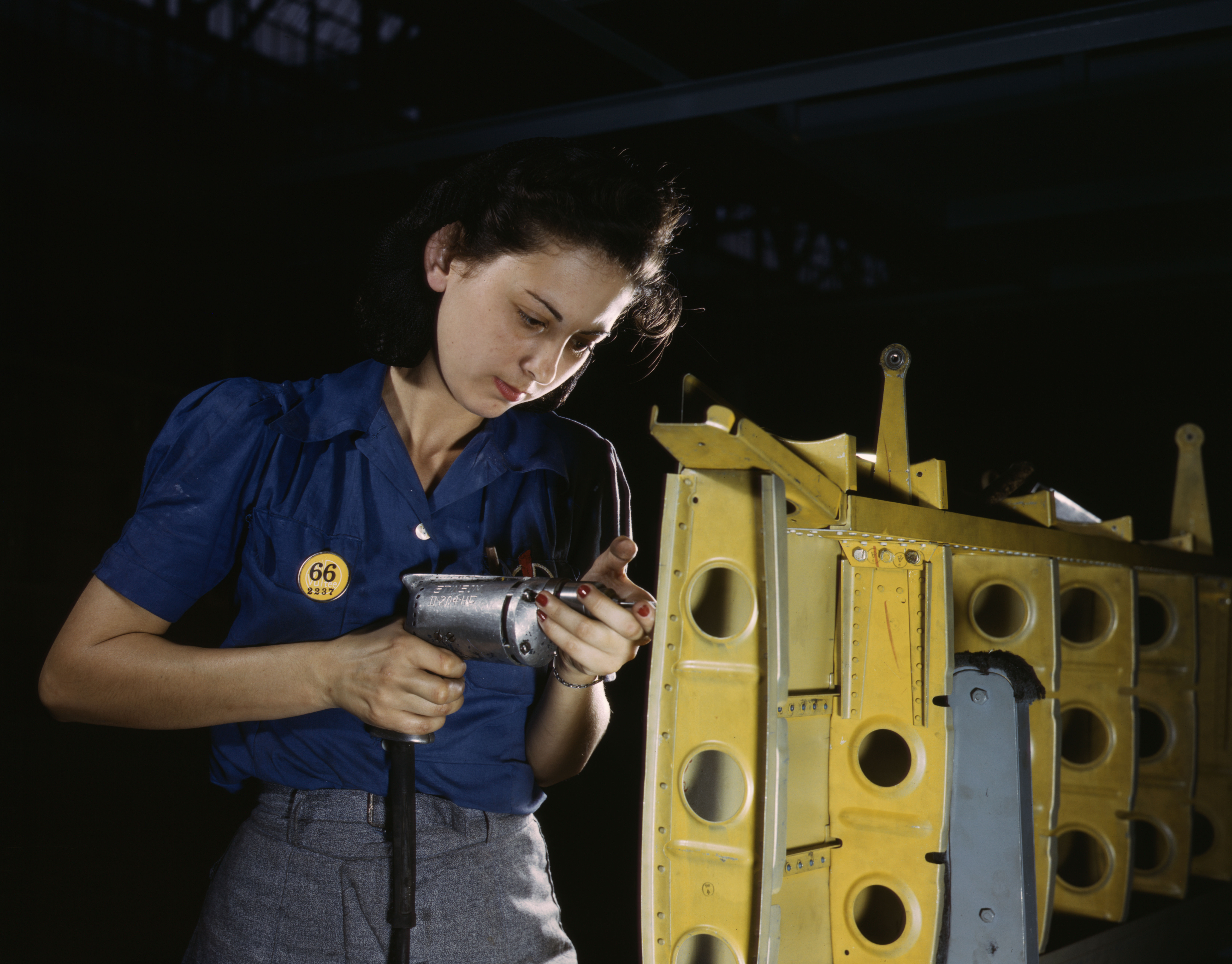 Drilling horizontal stabilizers: operating a hand drill, this woman worker at Vultee-Nashville is shown working on the horizontal stabilizer for a Vultee "Vengeance" dive bomber, Tennessee (1943).